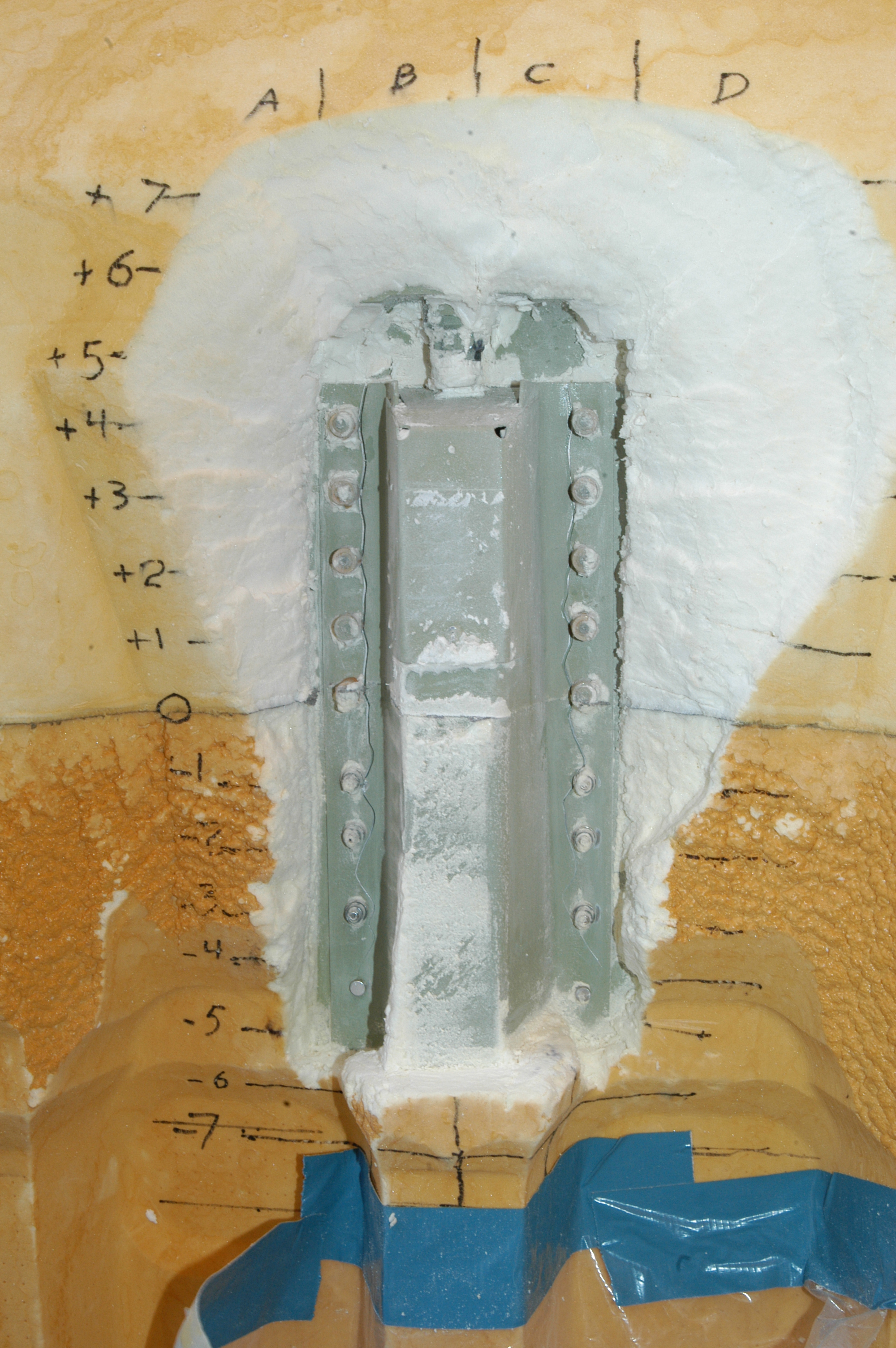 CAPE CANAVERAL, Fla. – During the removal of external fuel tank foam insulation on Launch Pad 39A at NASA's Kennedy Space Center in Florida, technicians identified two cracks, each about 9 inches long, on a section of the tank’s metal exterior. The foam cracked during initial loading operations for space shuttle Discovery’s launch attempt on Nov. 5. The cracks are on one of the stringers, which are the composite aluminum ribs located vertically on the tank’s intertank area. Engineers will review images of the cracks to determine the best possible repair method, which would be done at the pad. Discovery's next launch attempt is no earlier than Nov. 30 at 4:02 a.m. EST. For more information on STS-133, visit